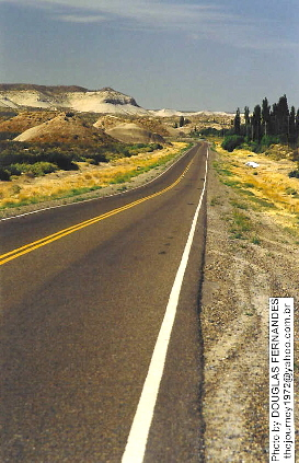 National Route 25, near Dolavon, Chubut Province.